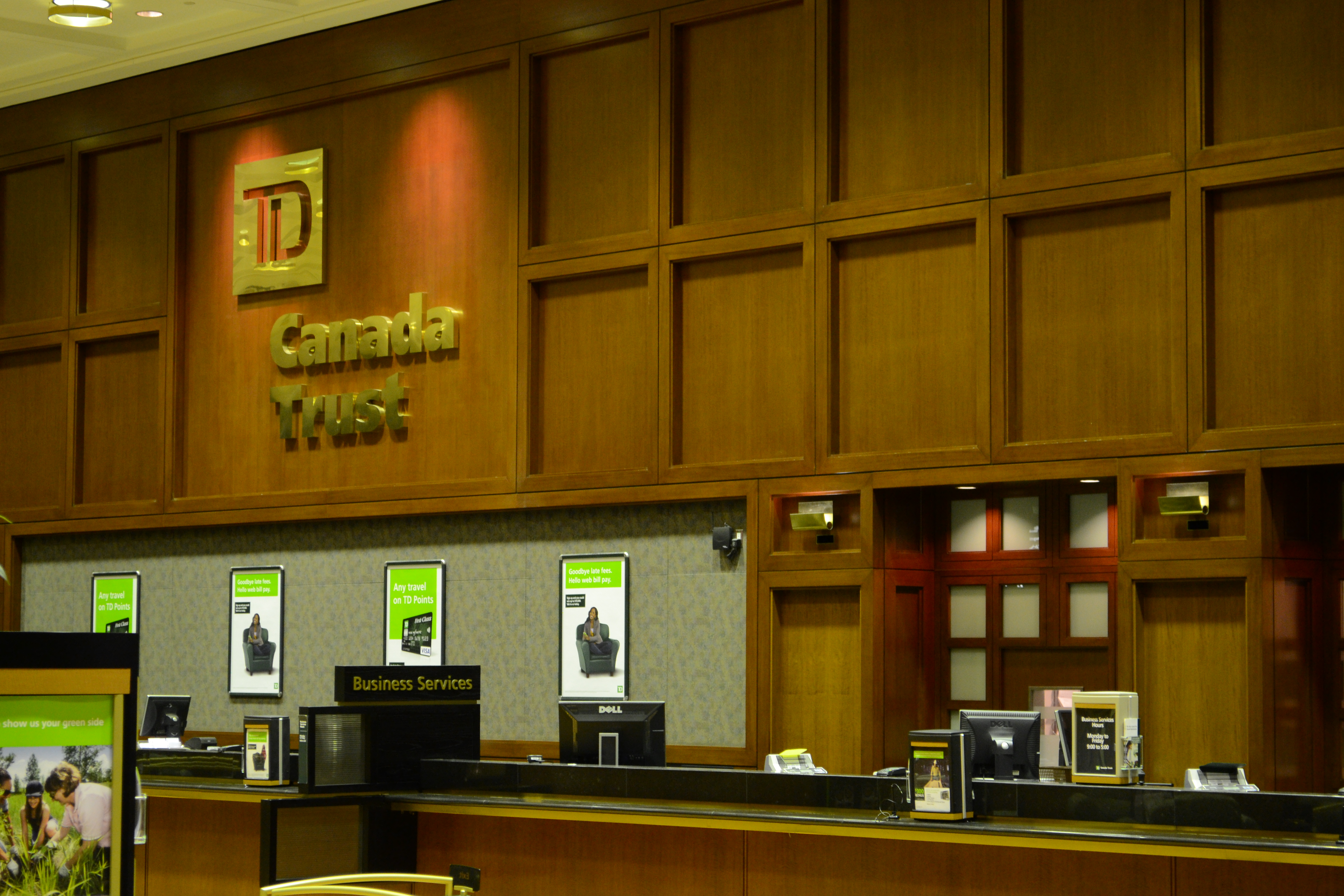 TD Canada Trust, Bay & Front St, Toronto